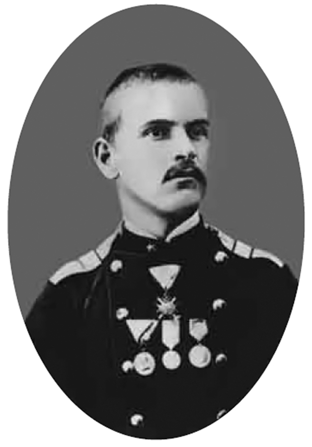 Photo of a Stepa Stepanović taken during his first year on Artilery School in Belgrade.